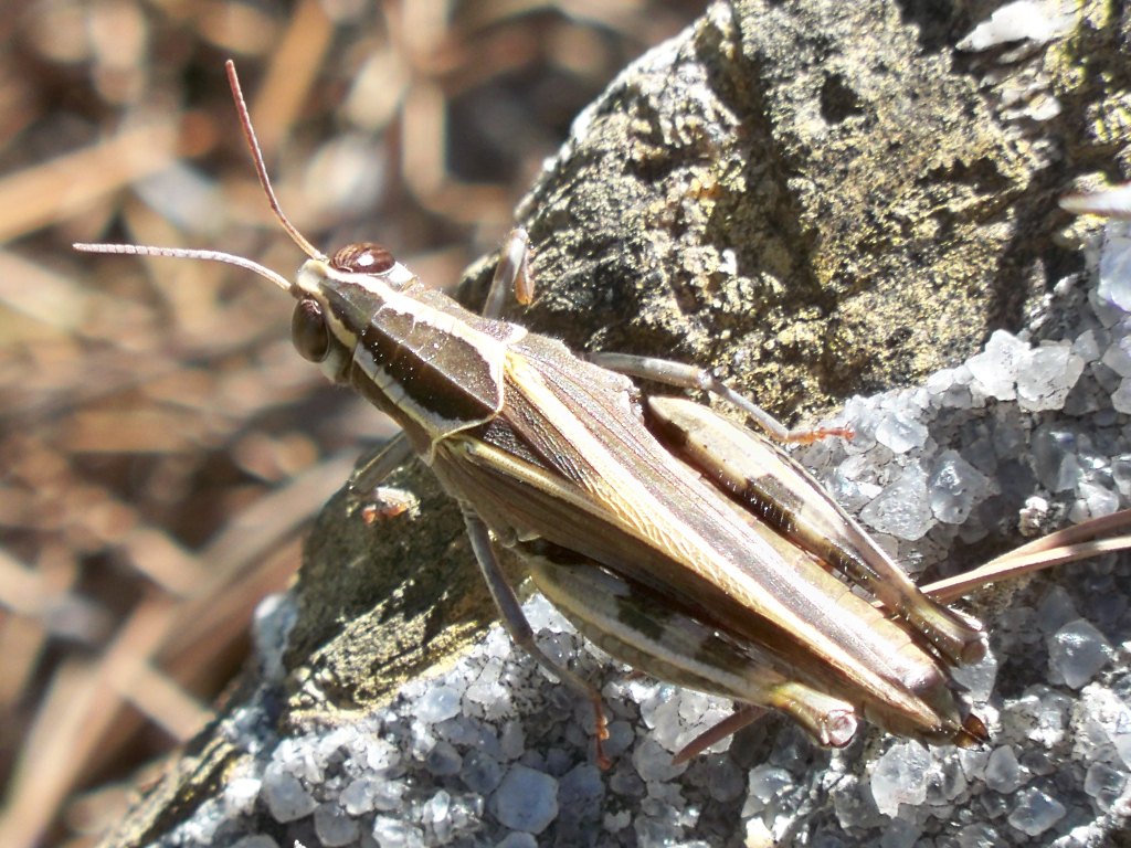 Barbarian grasshopper female (Calliptamus barbarus) f. marginella (Costa, O.G. 1836), Montes de Málaga Natural Park, Spain.